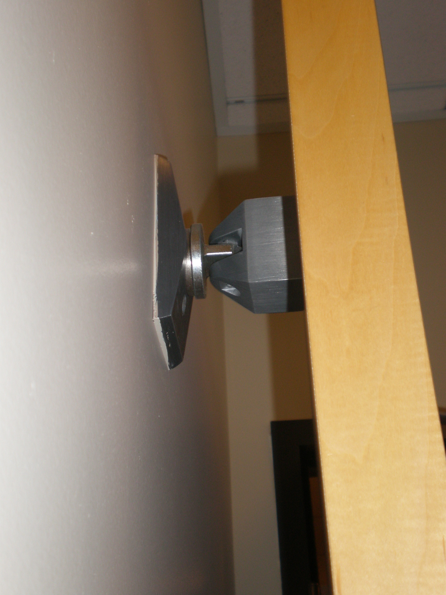 The magnet for a wooden fire door in an office building in Palo Alto, California. The door is normally held open via a magnet. See Image:Wooden fire door.JPG.